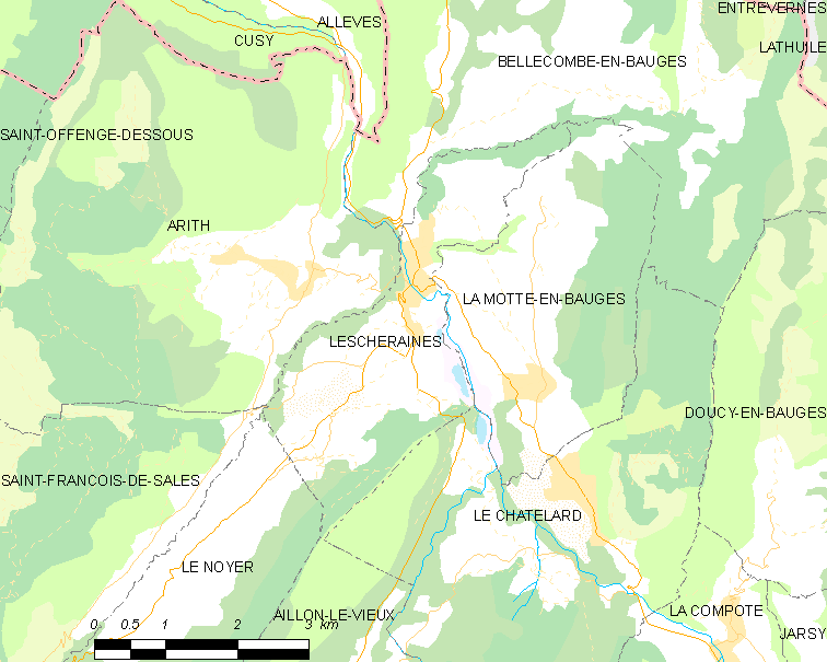 Map of French municipality